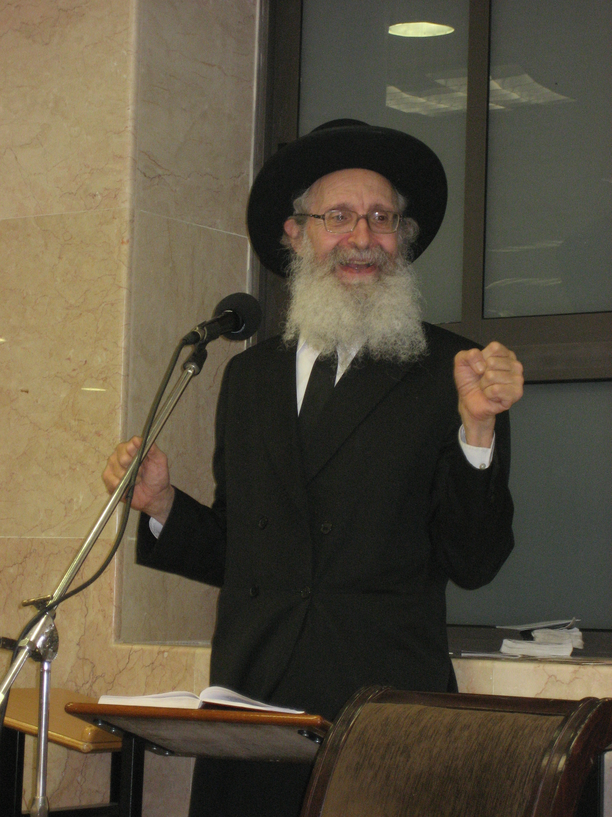 Rabbi Nosson Tzvi Finkel of Yeshivas Mir in Jerusalem speaking in the Yeshiva.